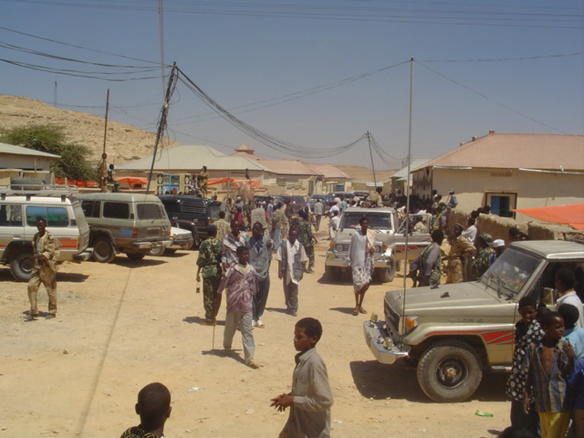 street scene in Las Anod (Laascaanood), Somaliland/Somalia